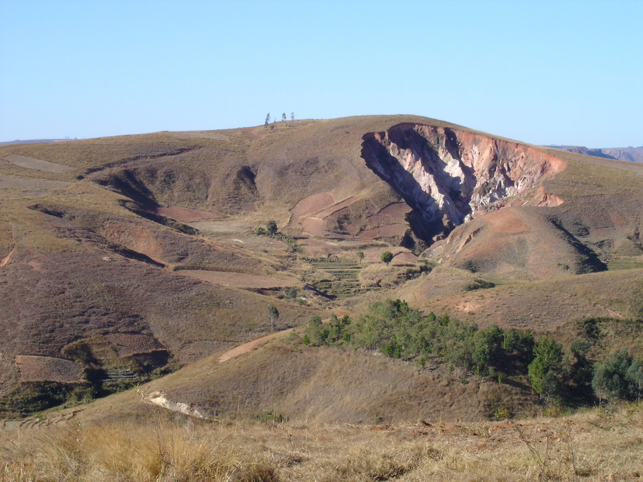 lavaka, Madagascar, 2005